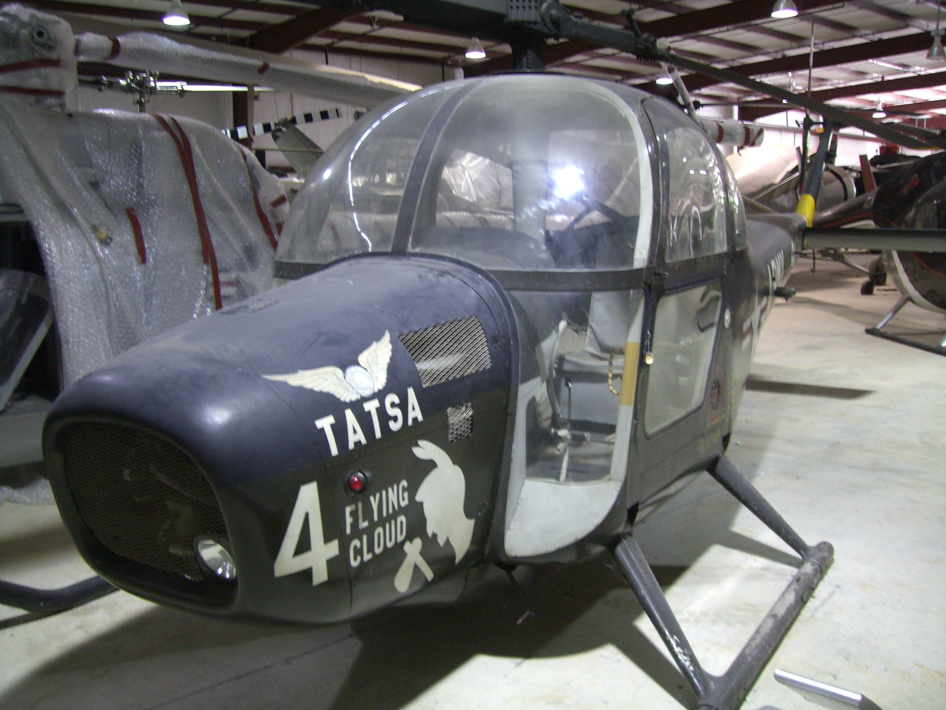 Cessna YH-41 Prototype Helicopter developed for the U.S. Army. It is located in the storage hangers of the Ft. Rucker Army Aviation Museum at Ft. Rucker Alabama. This picture was taken on July 9th 2007